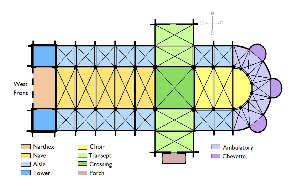 Floor plan of a basilica. Based on